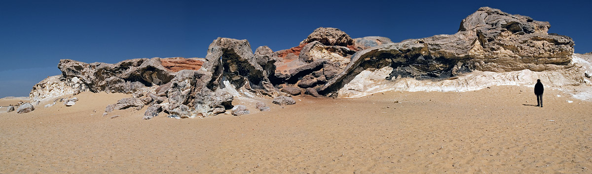 Crystal Mountain rock formation - in the White Desert - between Farafra and Bahariya oasis, western Egypt. own photo 02-10-2005 photo: nomo/michael hoefner